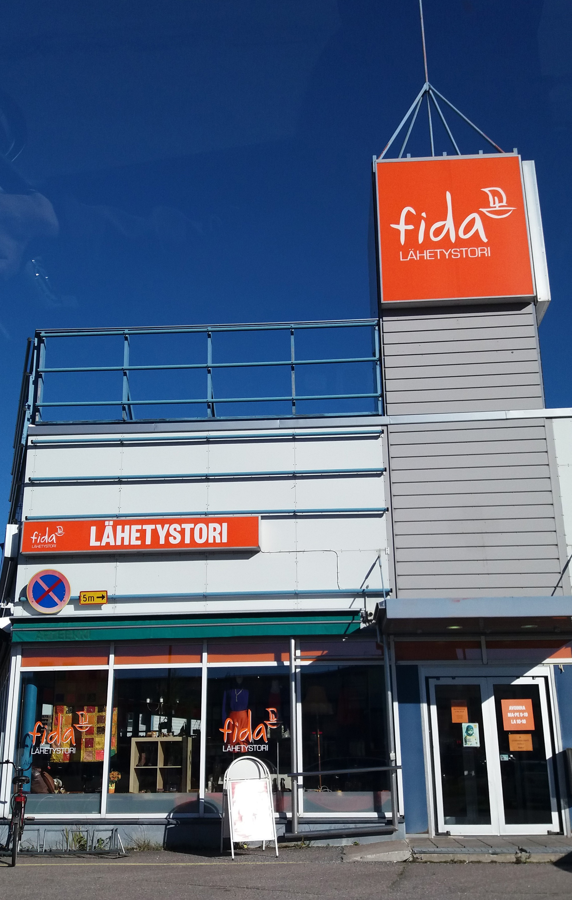 Fida flea market in Tampere.